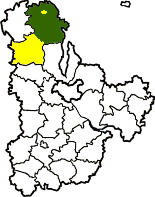 Locator map of the former Chernobyl Raion (green) within Kiev Oblast. Ivankiv Raion, in which the raion merged in 1988, is highlighted in yellow. The yellow dot is the city of Pripyat, autonomous from the raion since 1980.